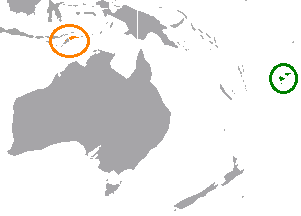 Map showing locations of Fiji and East Timor